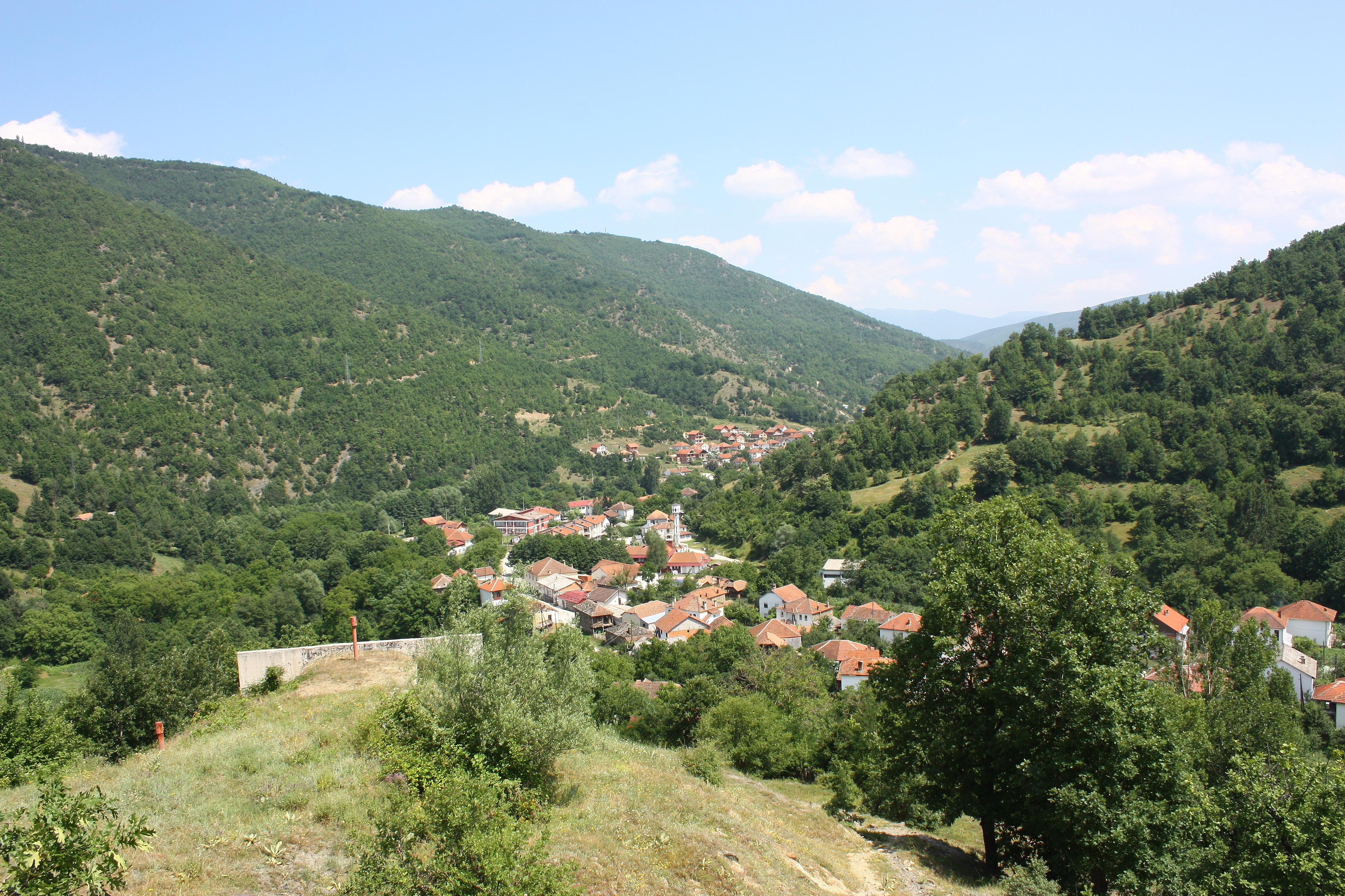 Samokov, Macedonia